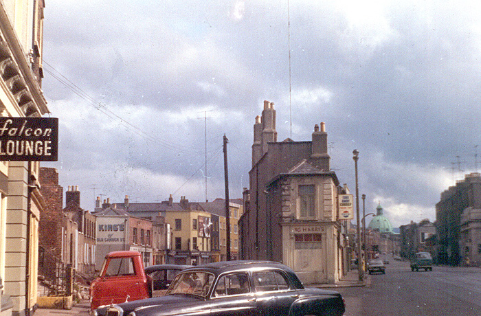 Photo of Old Camden Street in Dublin, Ireland, early 70s, taken by me. Scanned in by me.